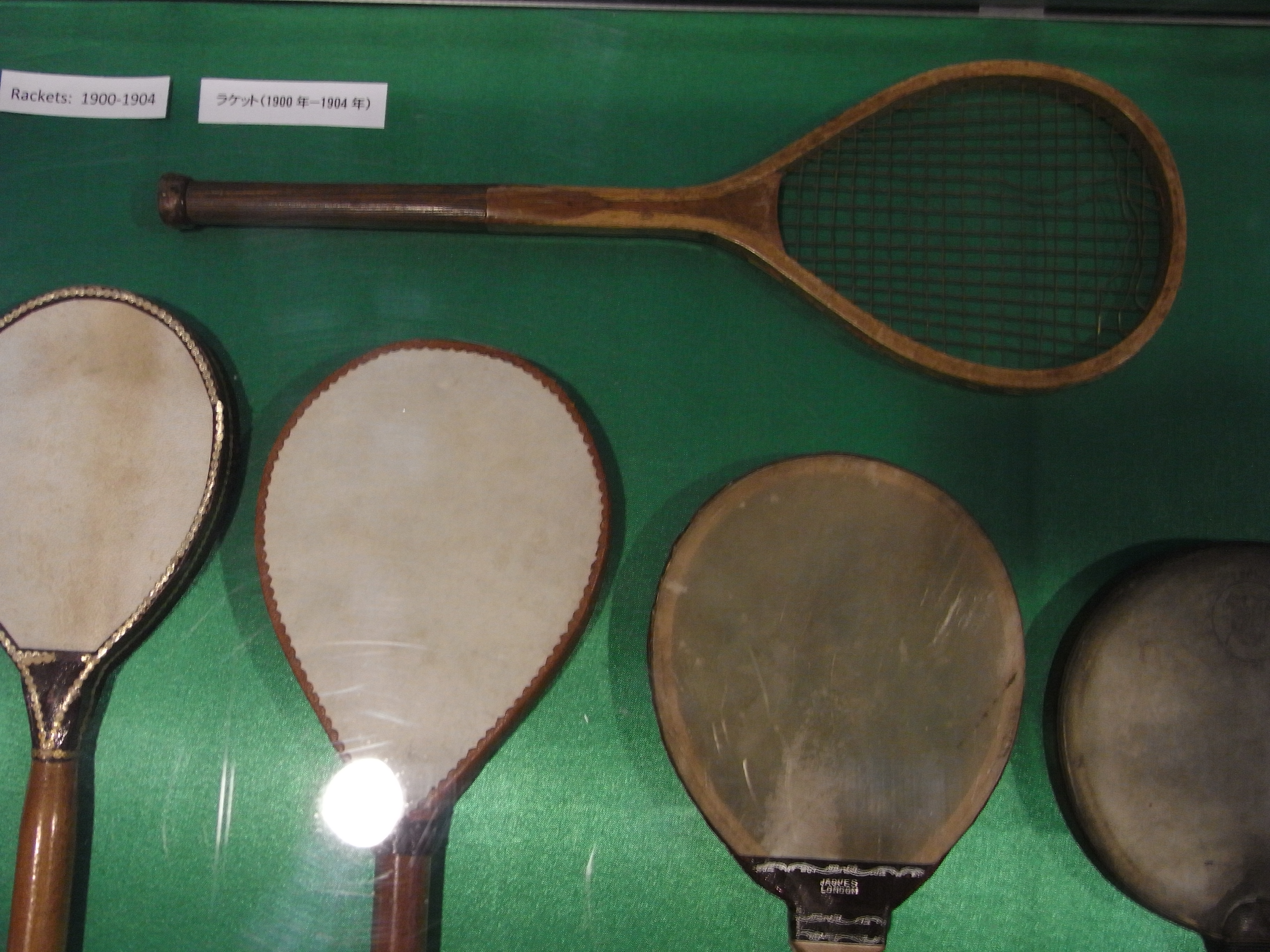 Some exhibits from the racket collection of the ITTF museum. For a limited period 28 April 2009 - 5 May, these rackets were displayed at 2009 World Table Tennis Championships. [1] ([2]) [3]